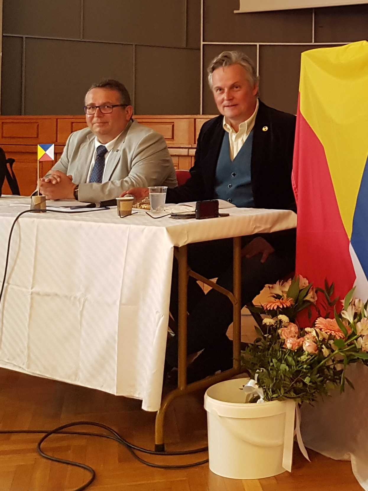 Vojtěch Merunka (L) and Jan van Steenbergen (R) at the 2nd Conference on Interslavic Language (Hodonín, 1 June 2018).